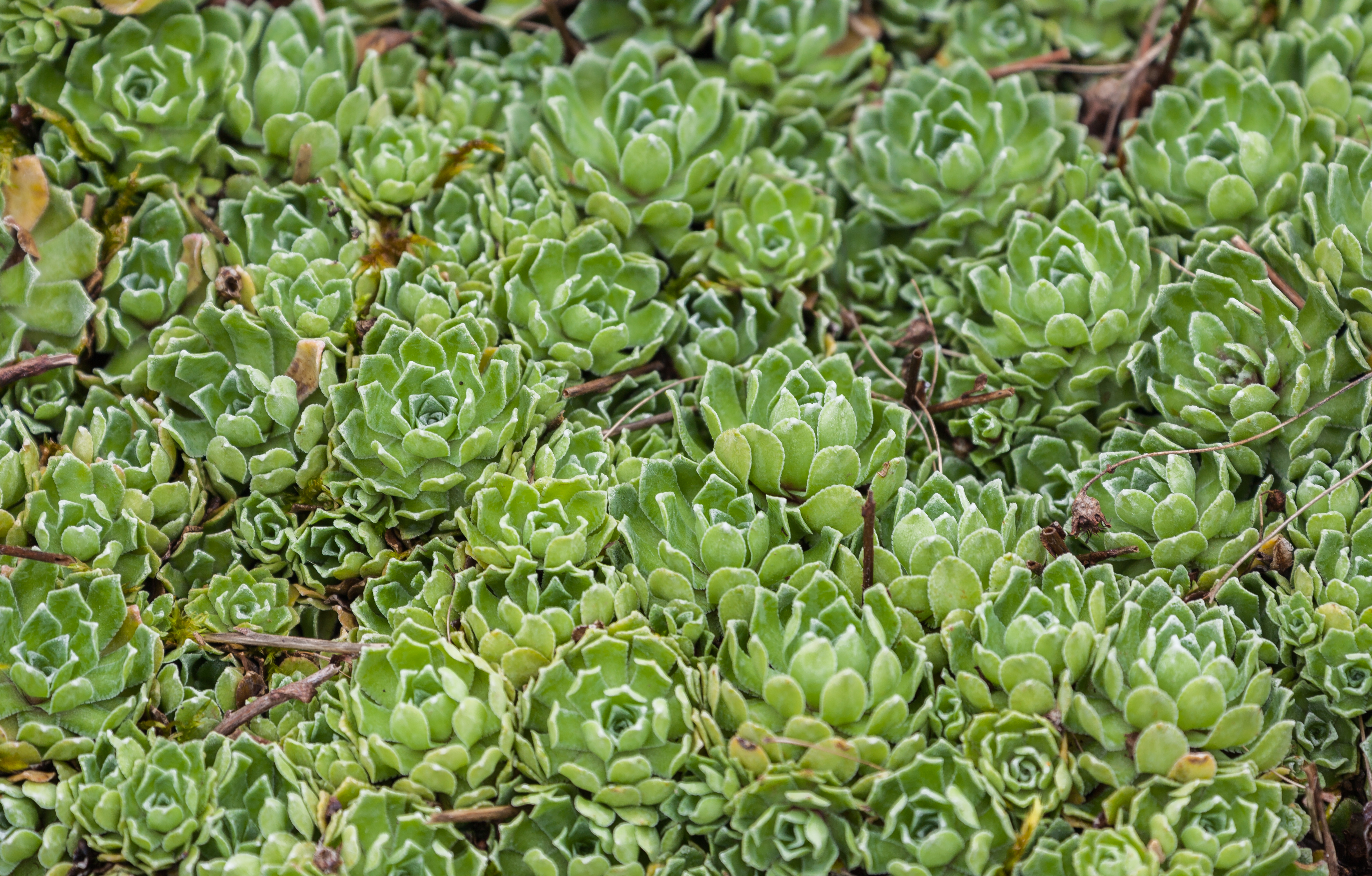 Saxifraga paniculata, Munich Botanical Garden, Germany